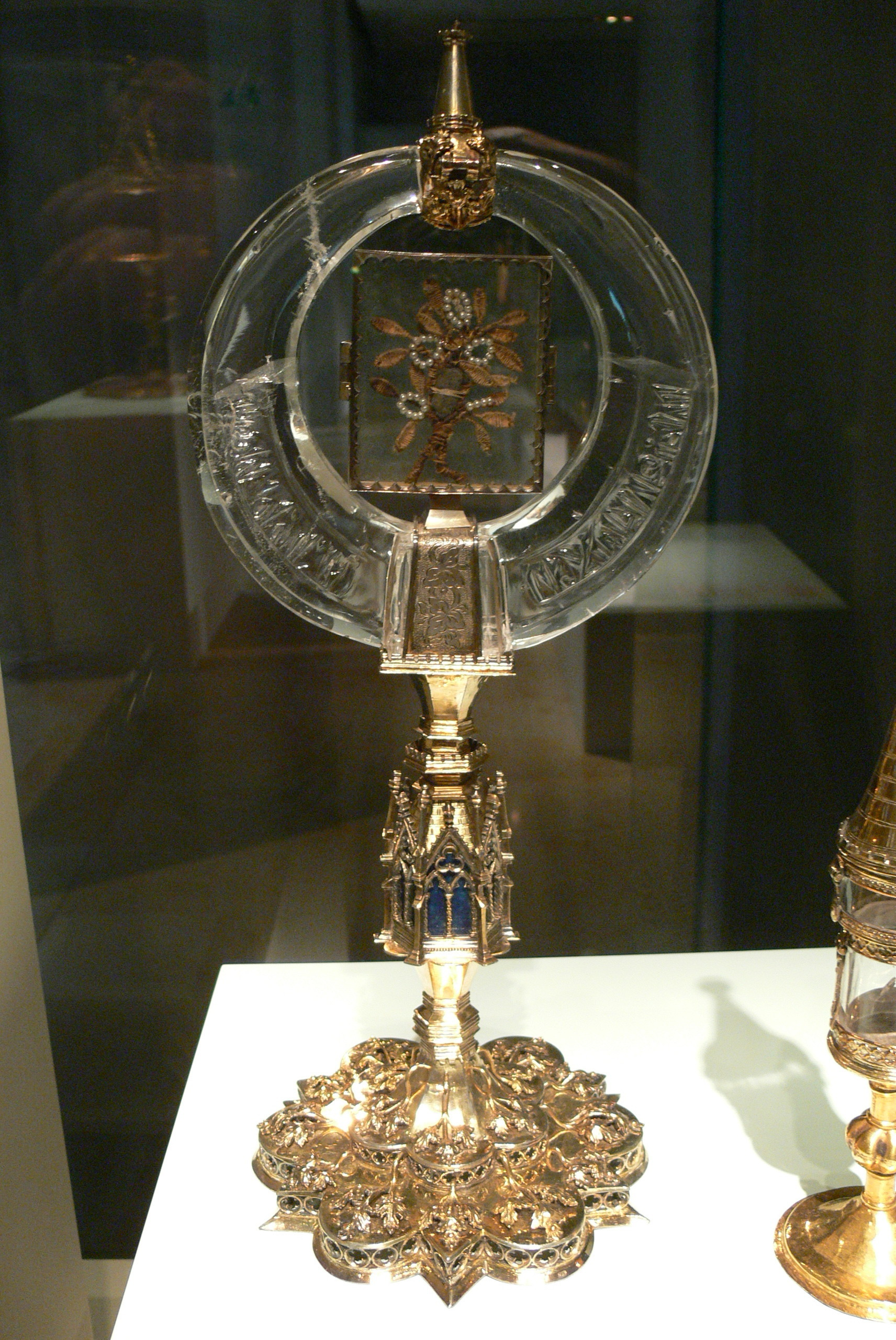 German National Museum ( Nuremberg / Germany ). Reliquary, made of islamic rock cristall ( 1036 ), mounted in Venice 1350, from Hofburg chapel in Vienna.